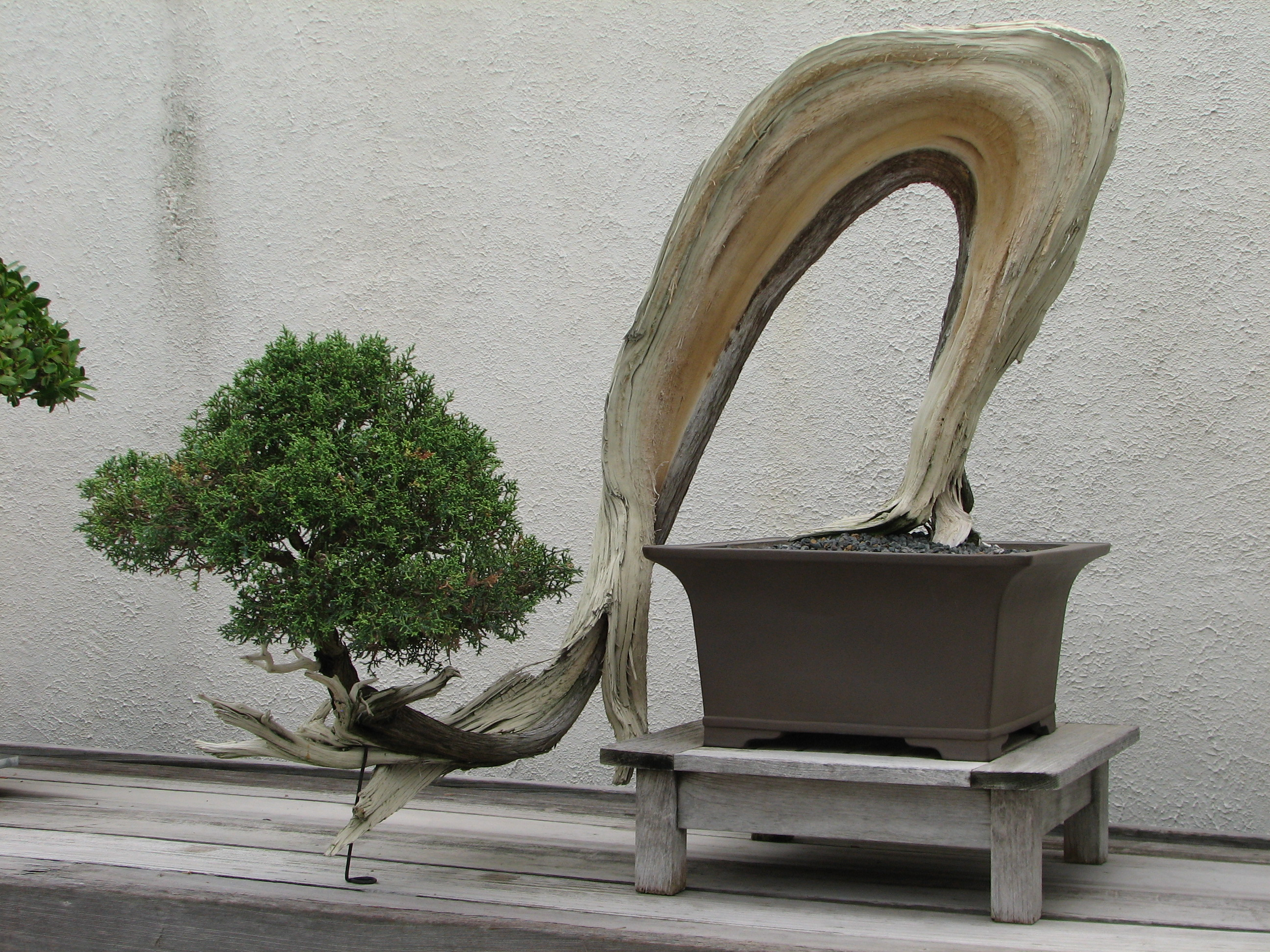 A California Juniper (Juniperus californica) bonsai on display at the National Bonsai & Penjing Museum at the United States National Arboretum. According to the tree's display placard, it has been in training since 1968. It was donated by Harry Hirai.